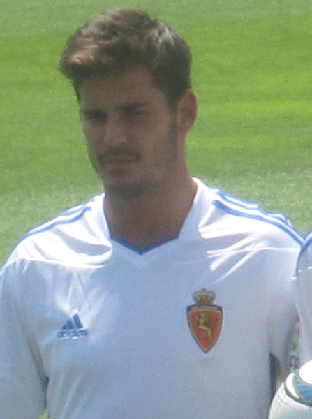 Eduard Oriol in 2011, being presented at Real Zaragoza. Cropped from a Commons file.